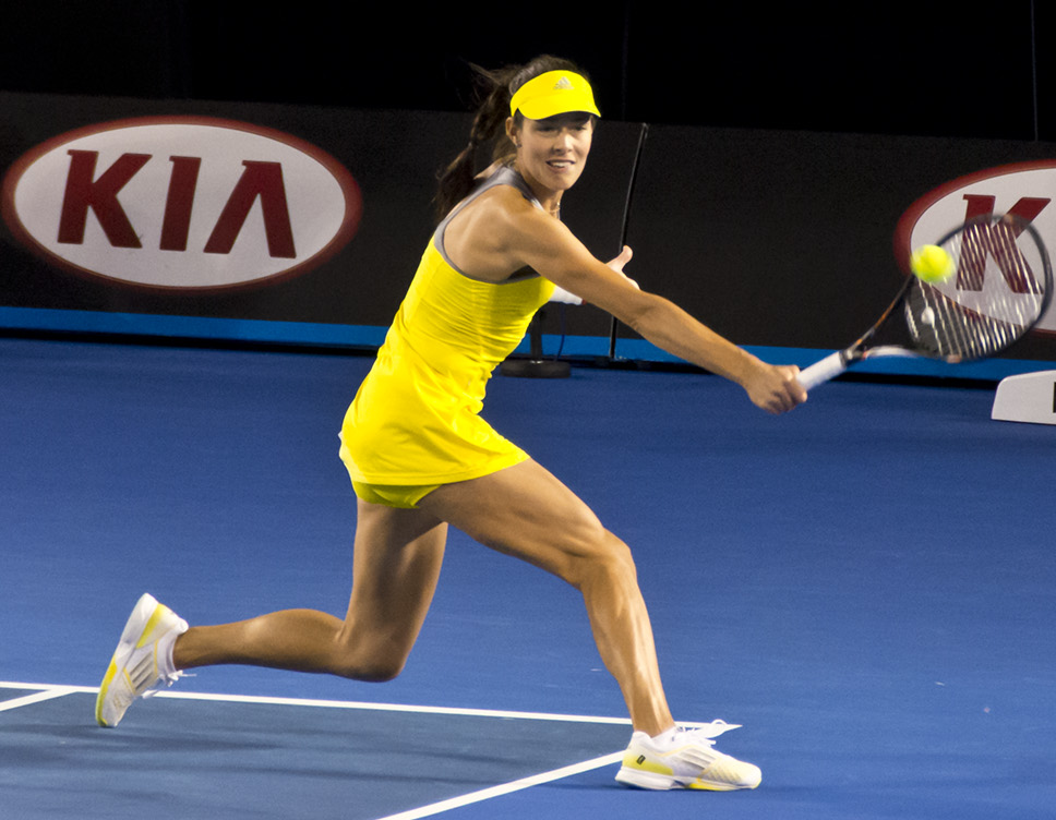 Ana Ivanović at the Australian Open 2013